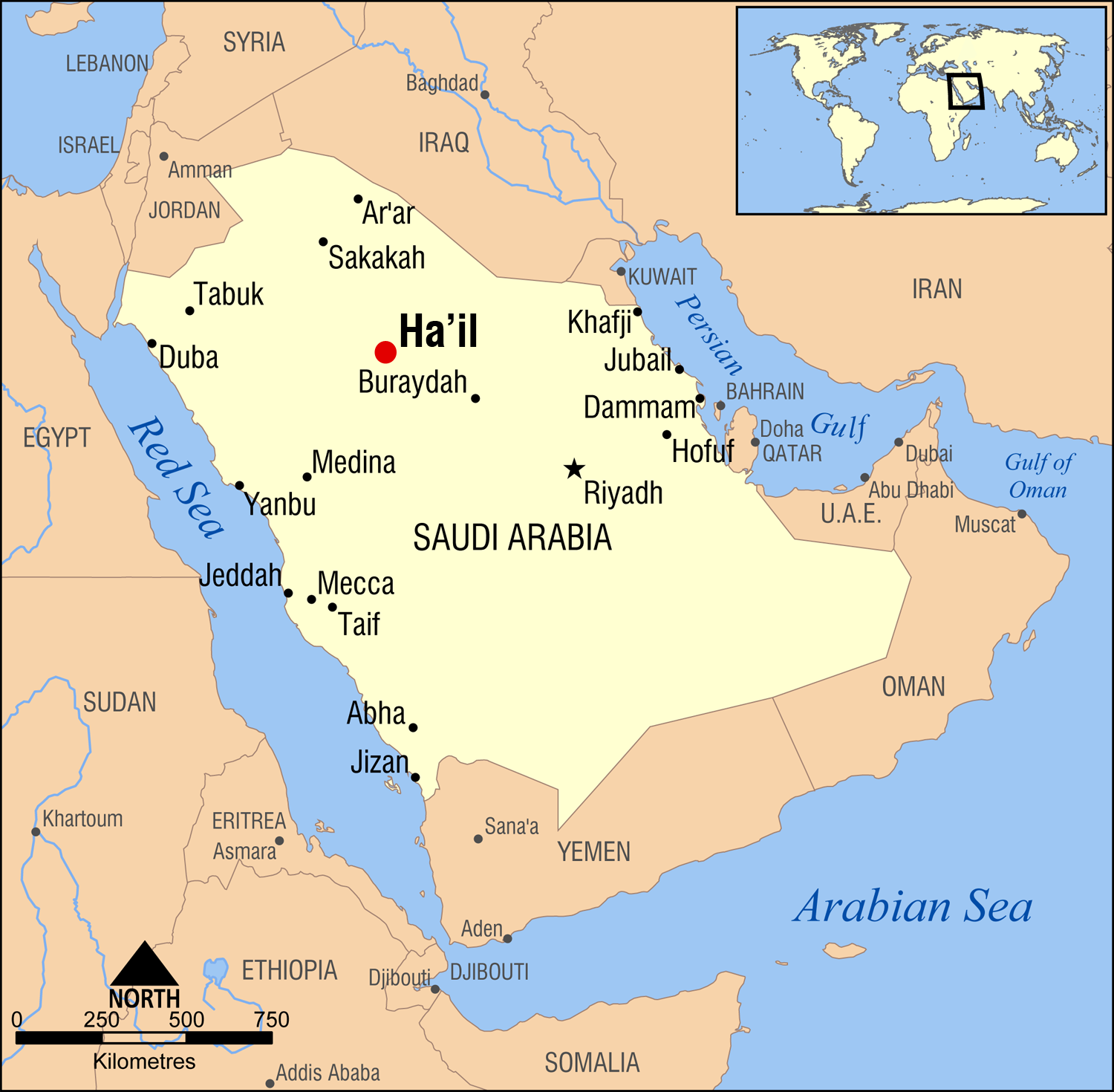 Locator map of Ha'il, Saudi Arabia. Created by NormanEinstein, May 5, 2007.